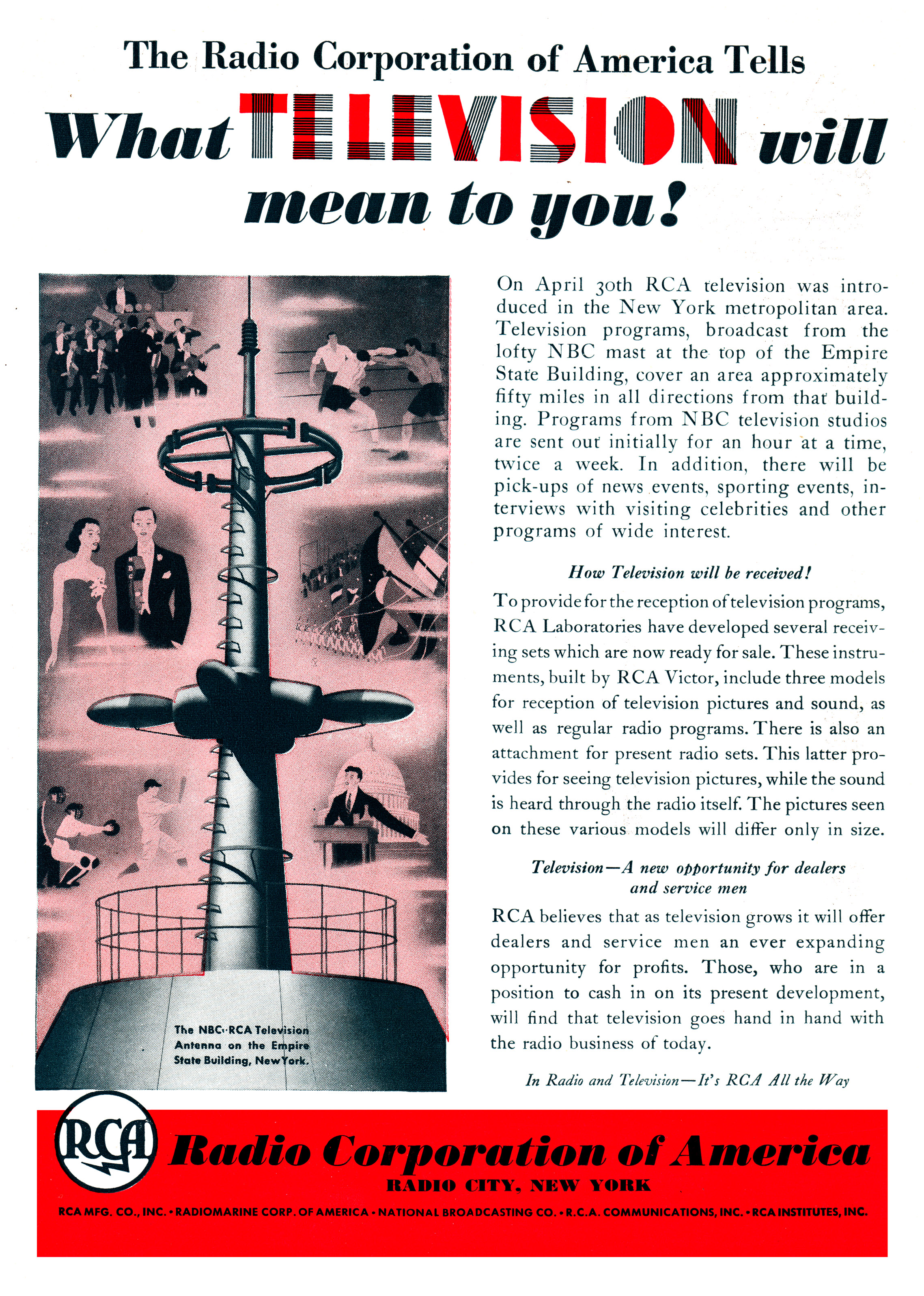 Radio Corporation of America (RCA Victor, National Broadcasting Company) advertisement for the beginning of regular experimental television broadcasting from the NBC studios to the New York metropolitan area on April 30, 1939 for "an hour at a time, twice a week."